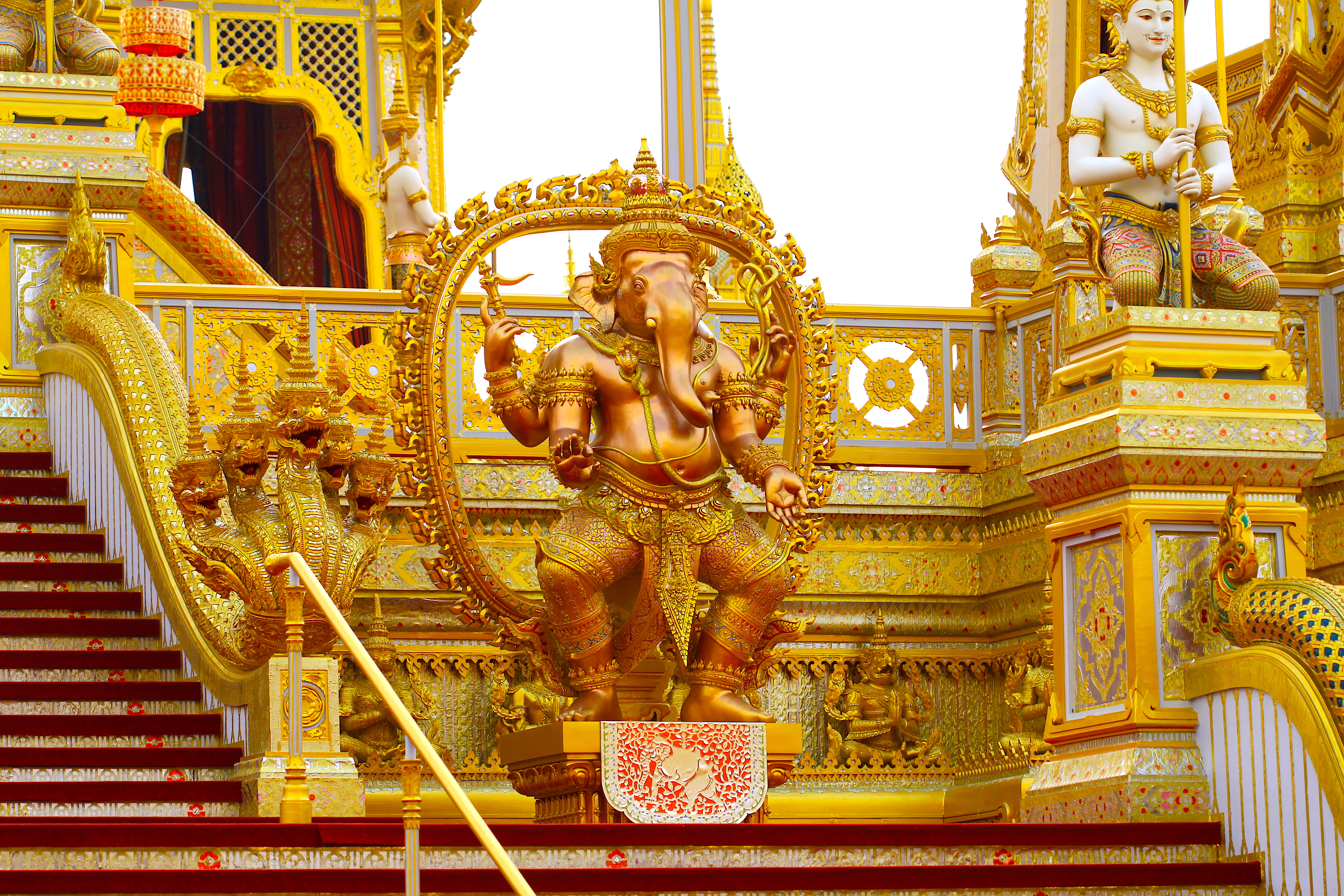 Royal Crematorium King Rama9 of Thailand.